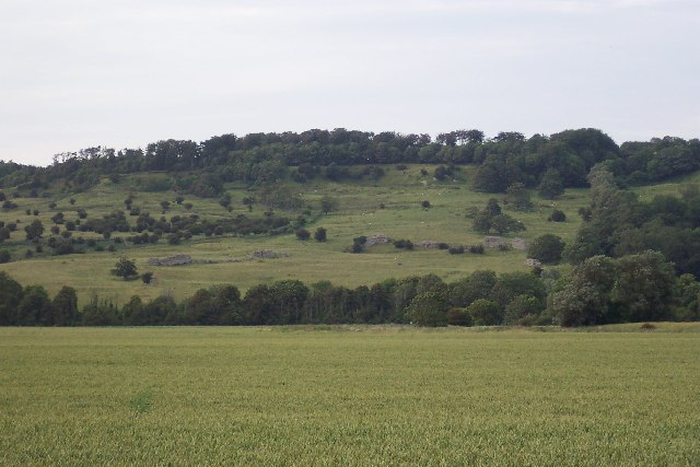 Lemanis Roman Fort, Lympne, Kent. The remains of Lemanis, the Roman fort at Lympne, also known as Stutfall Castle. The sea once reached right to the foot of the hills here and this was once a major Roman port and one of the Saxon Shore forts. Landslips have destroyed many of the remains. ( for more information.)